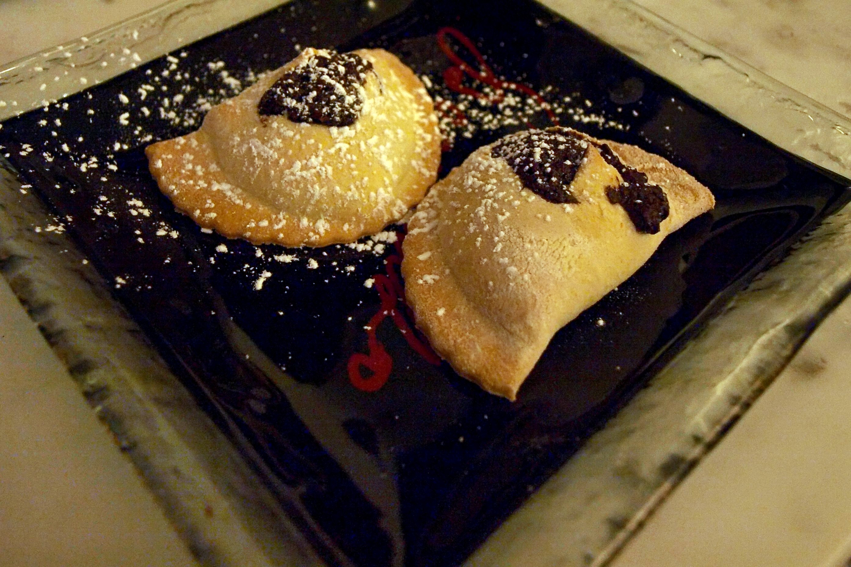 'Mpanatigghi: chocolate and meat pastries from Modica, Sicily.